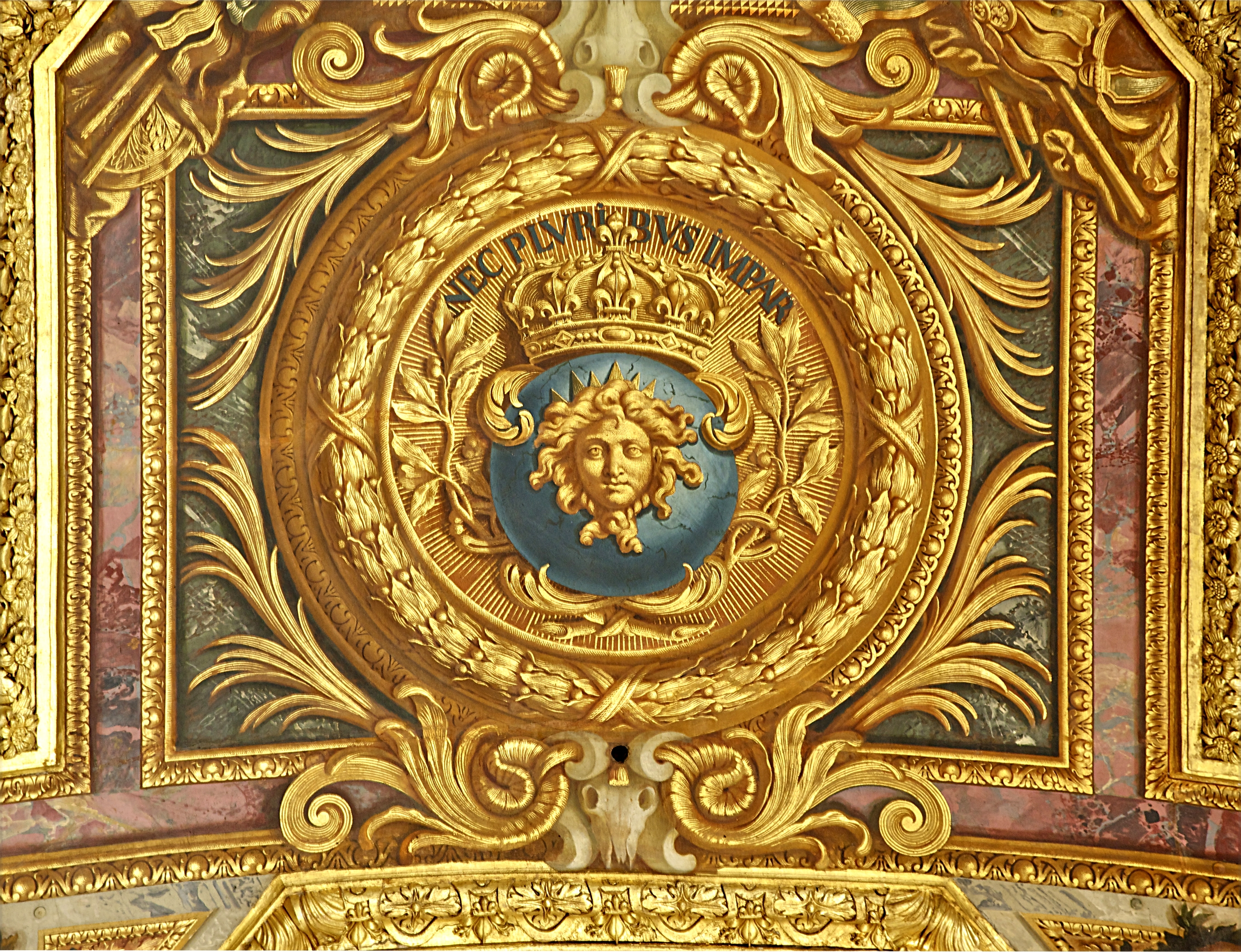 A symbol of Louis XIV, ceiling of the hall of mirrors in the Palace of Versailles